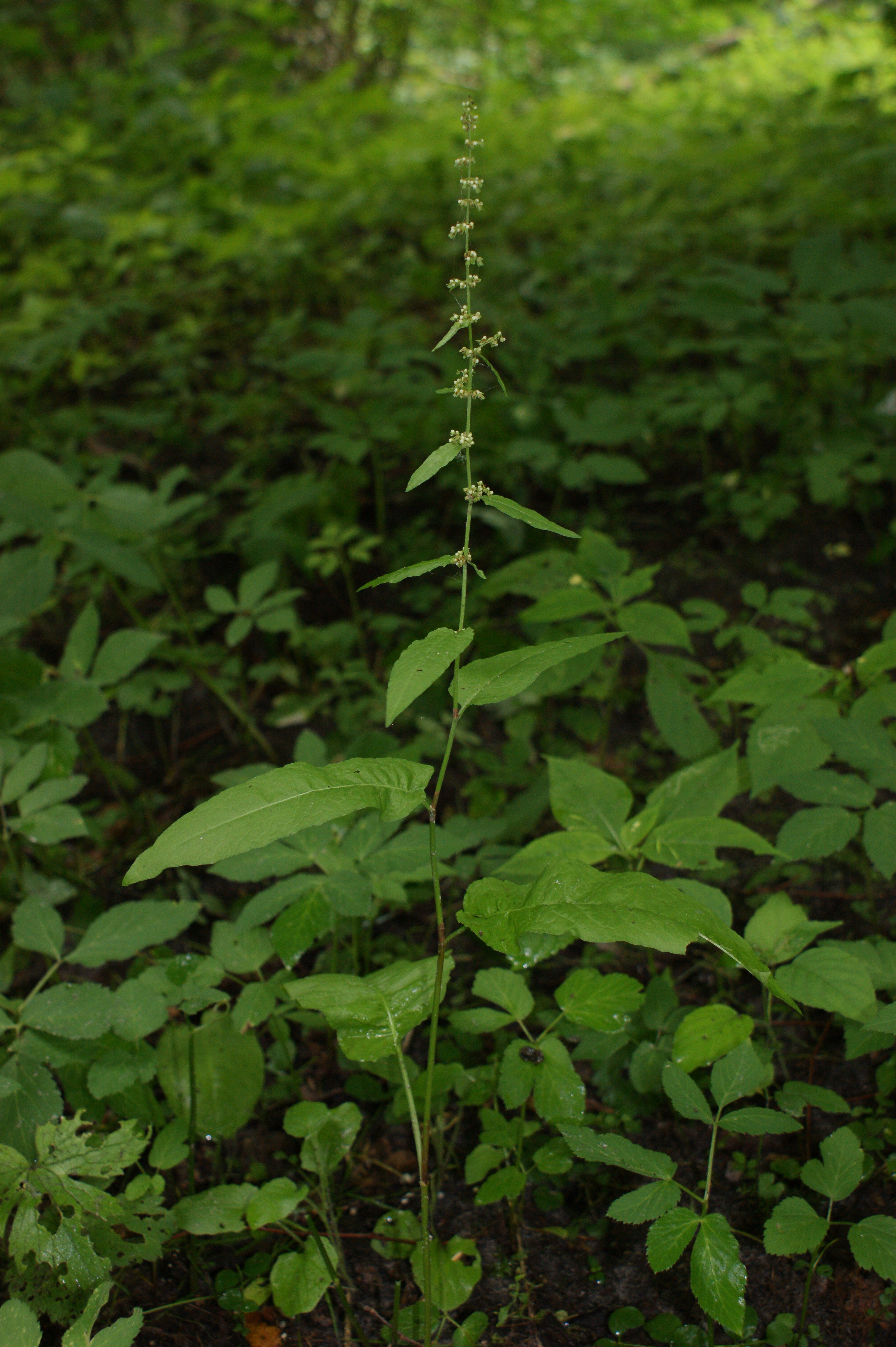 Rumex sanguineus